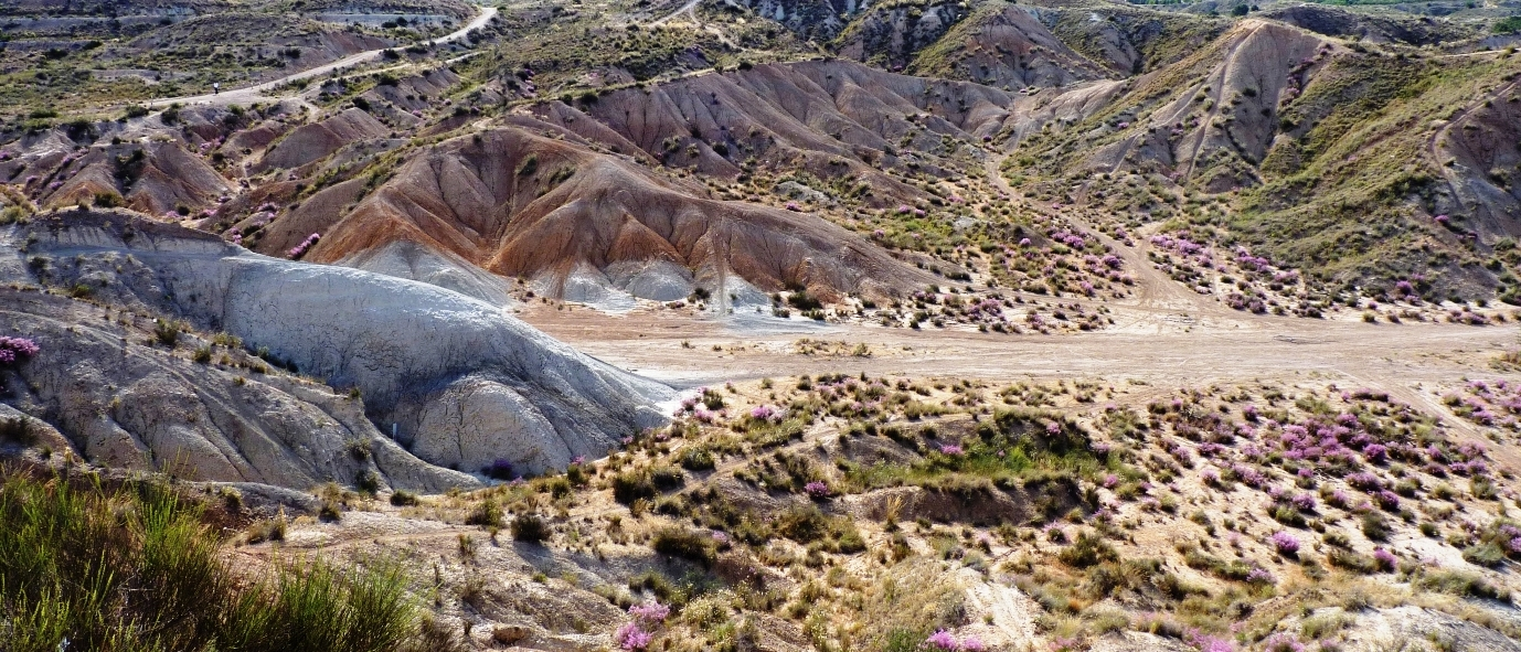 Rambla de Las Salinas